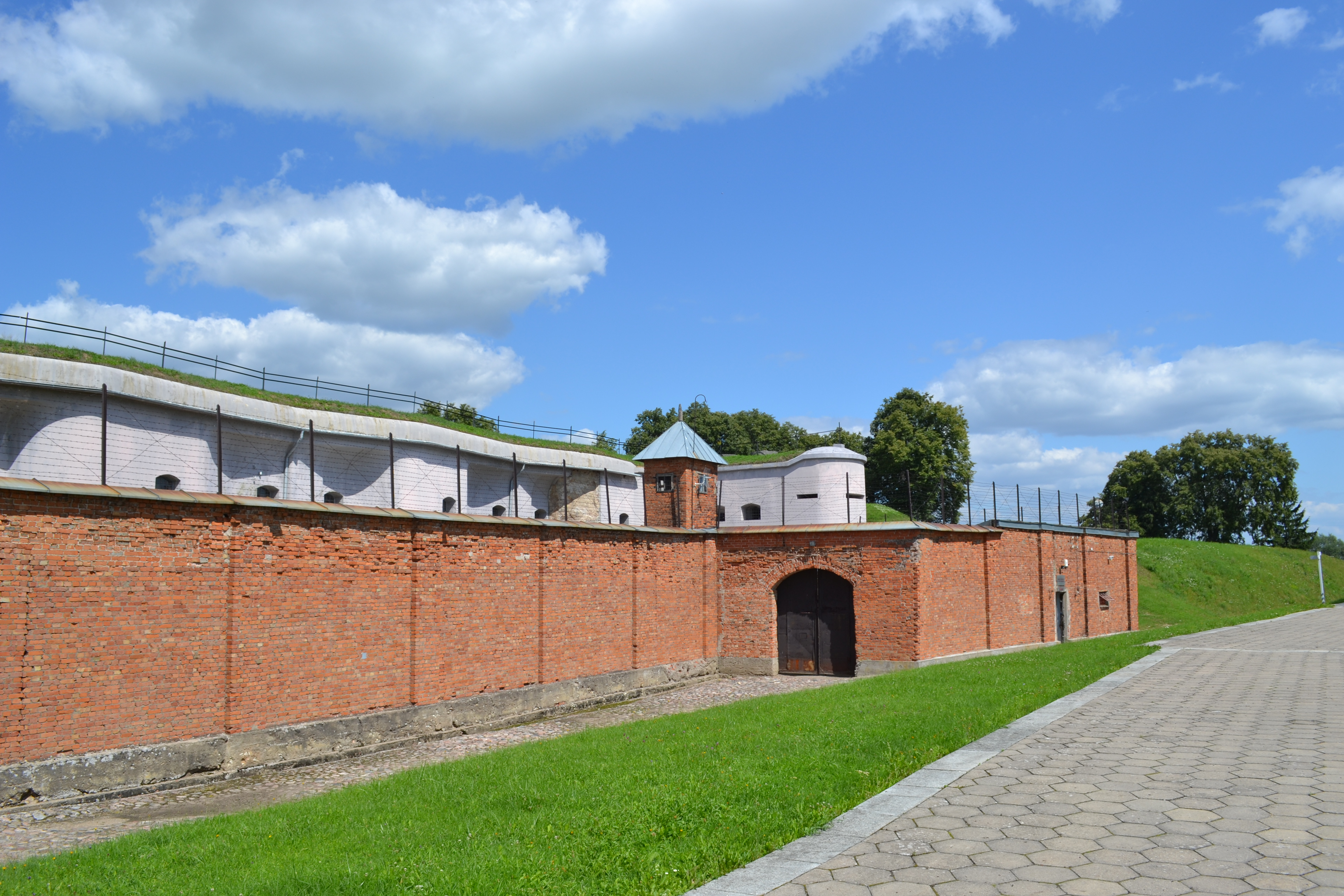 fort IX kaunas death road